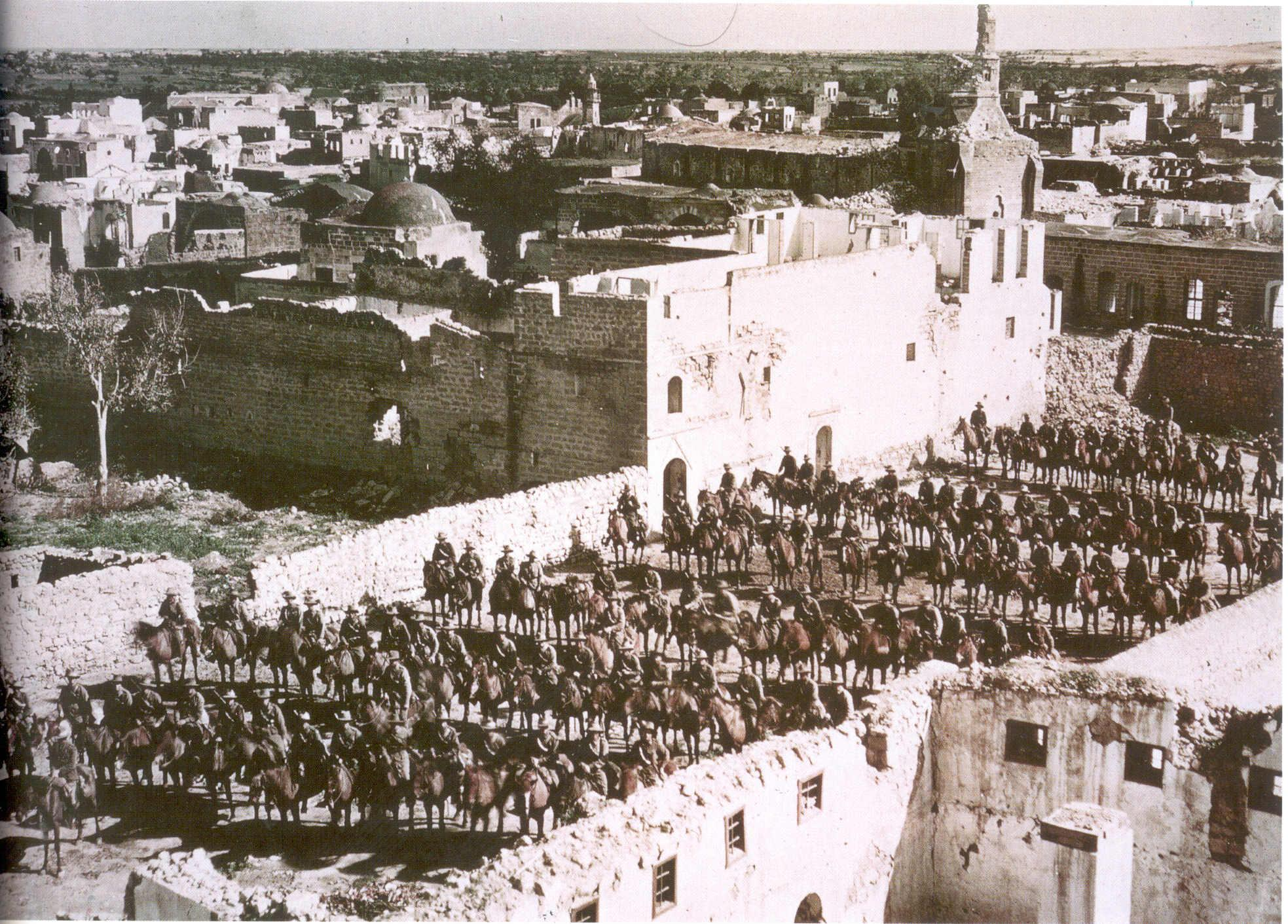 Gaza after surrender to Britain